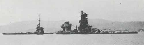 battleship hyuga sunk in shallow waters